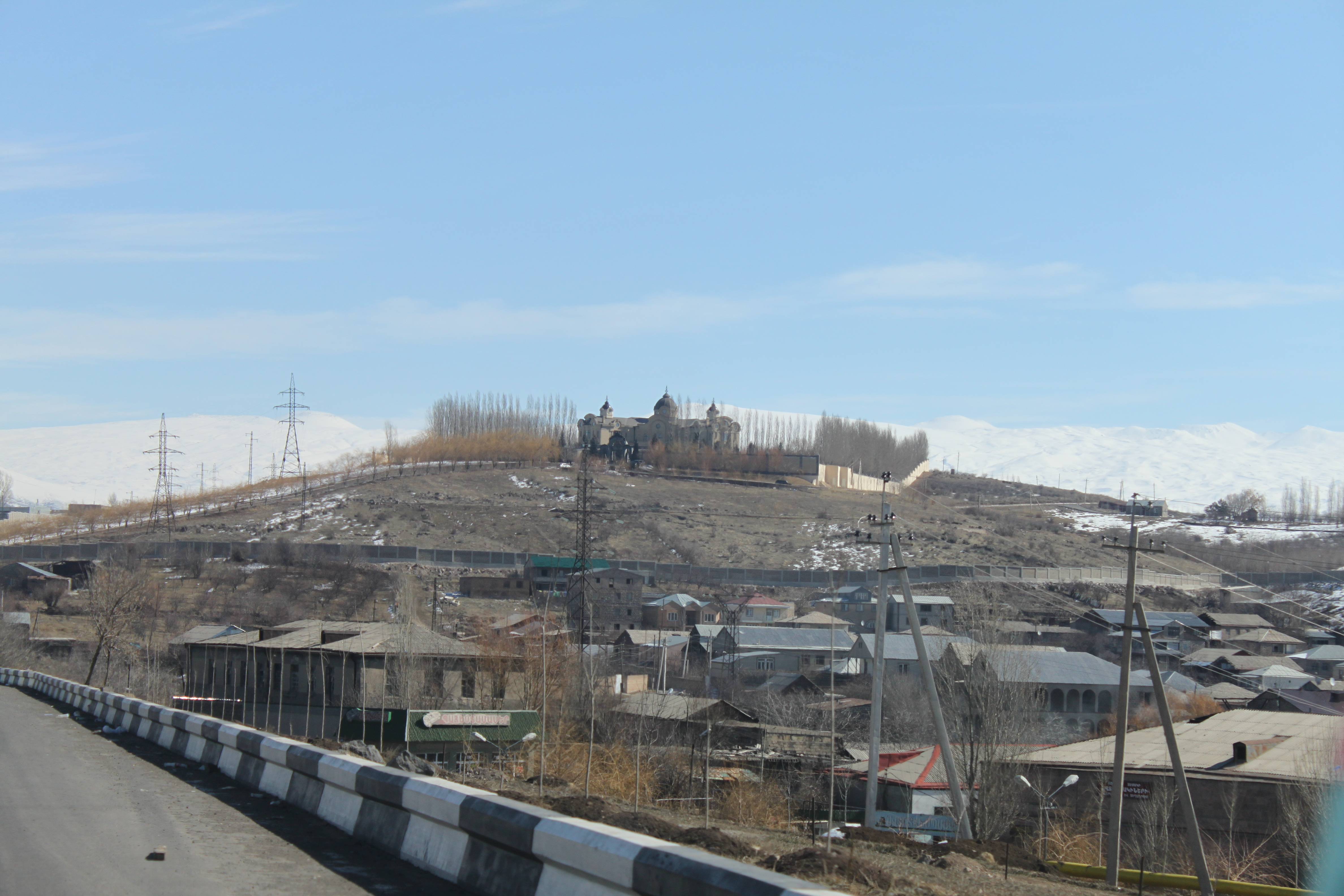 View of the villa and compound of Armenian oligarch, monopolist, and member of parliament Gagik Tsarukian (a.k.a. Dodi Gago). In the Arinj village of Armenia's Kotayk Province.